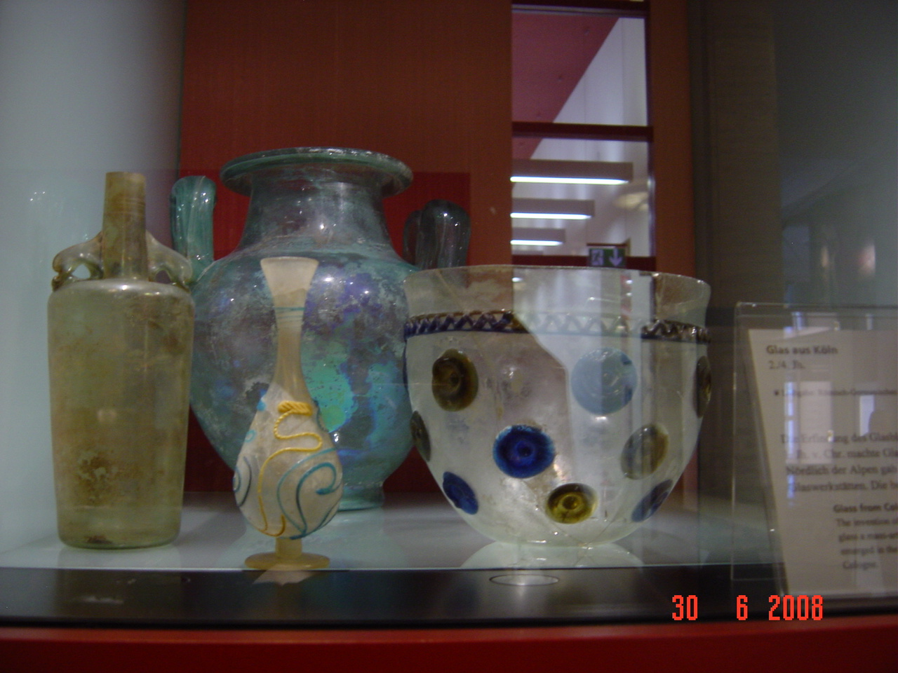 Roman glasses, found in Germany, from the third and fourth century Anno domini, now shown in the Roman department of the German Historical Museum in Berlin, Germany = Deutsches Historisches Museum = DHM